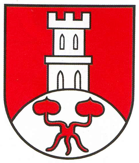 Coat of Arms of Warberg